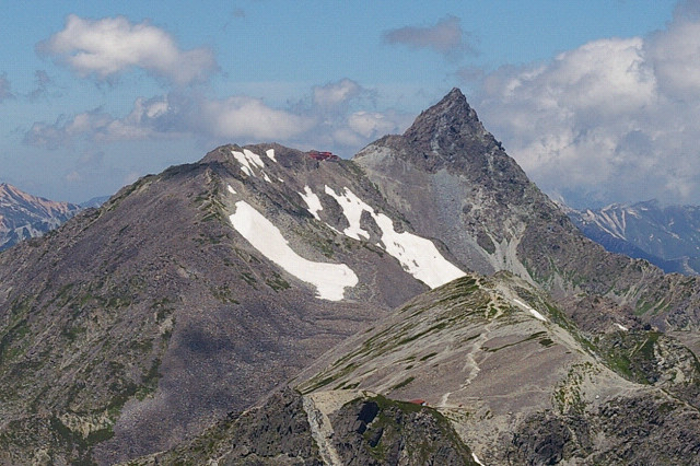 槍ヶ岳（北穂高岳から撮影・北アルプス）Mt. Yarigatake (from Kita-hotakadake, Northern Alps of Japan)